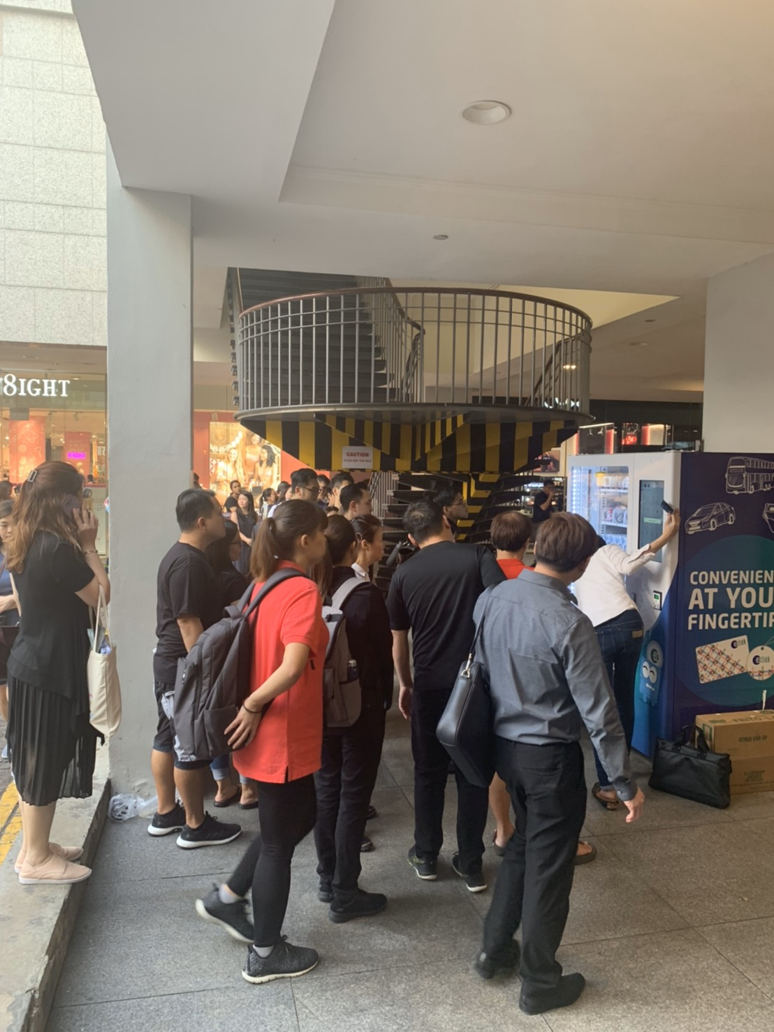 EZ-Link vending machine